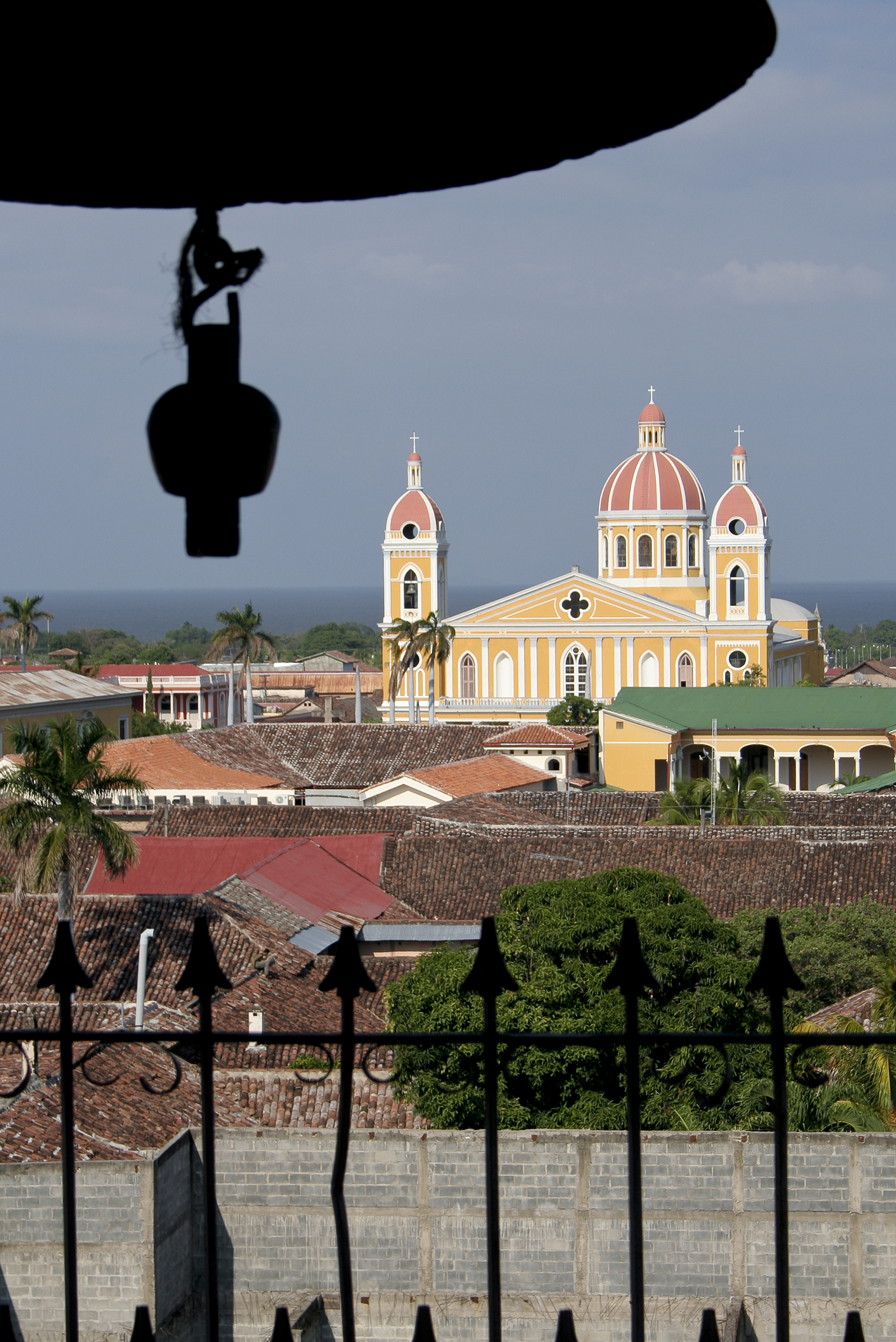 The Cathedral of Granada seen from the bell tower of the La Merced Church, Nicaragua.